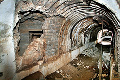 Entrance to Operation Tracer, Stay Behind Cave. Doorway is seen behind brickwork which has been partially removed.